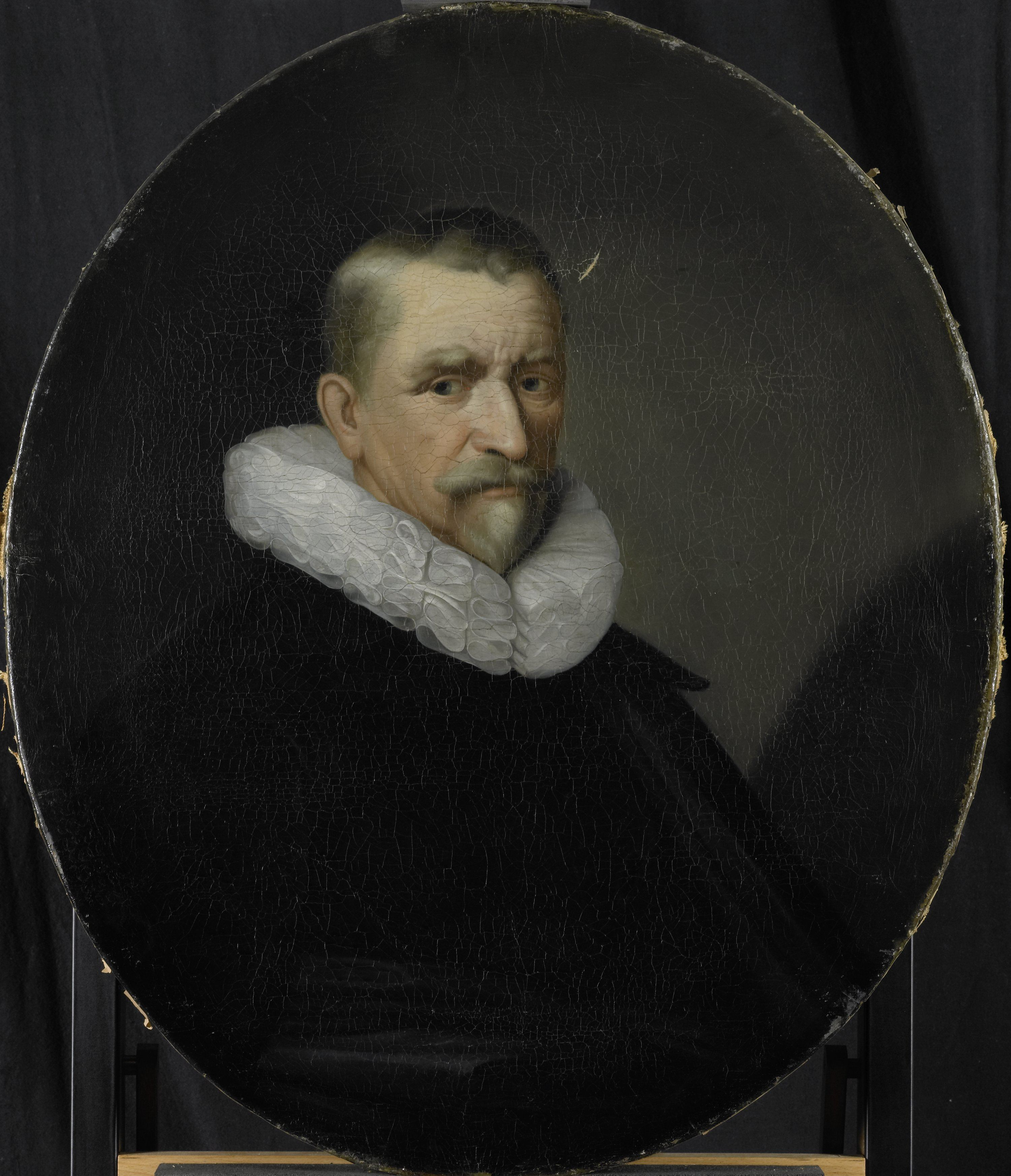 Part of the Rotterdam VOC series, a series of portraits of directors of the Rotterdam Chamber of the Dutch East India Company executed for the Nieuw Oost-Indisch Huis, built in 1698, on Boompjes in Rotterdam.